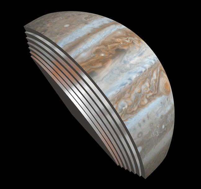 This composite image depicts Jupiter's cloud formations as seen through the eyes of Juno's Microwave Radiometer (MWR) instrument as compared to the top layer, a Cassini Imaging Science Subsystem image of the planet. The MWR can see a couple of hundred miles (kilometers) into Jupiter's atmosphere with its largest antenna. The belts and bands visible on the surface are also visible in modified form in each layer below. JPL manages the Juno mission for the principal investigator, Scott Bolton, of Southwest Research Institute in San Antonio. Juno is part of NASA's New Frontiers Program, which is managed at NASA's Marshall Space Flight Center in Huntsville, Alabama, for NASA's Science Mission Directorate. Lockheed Martin Space Systems, Denver, built the spacecraft. Caltech in Pasadena, California, manages JPL for NASA. More information about Juno is online at and